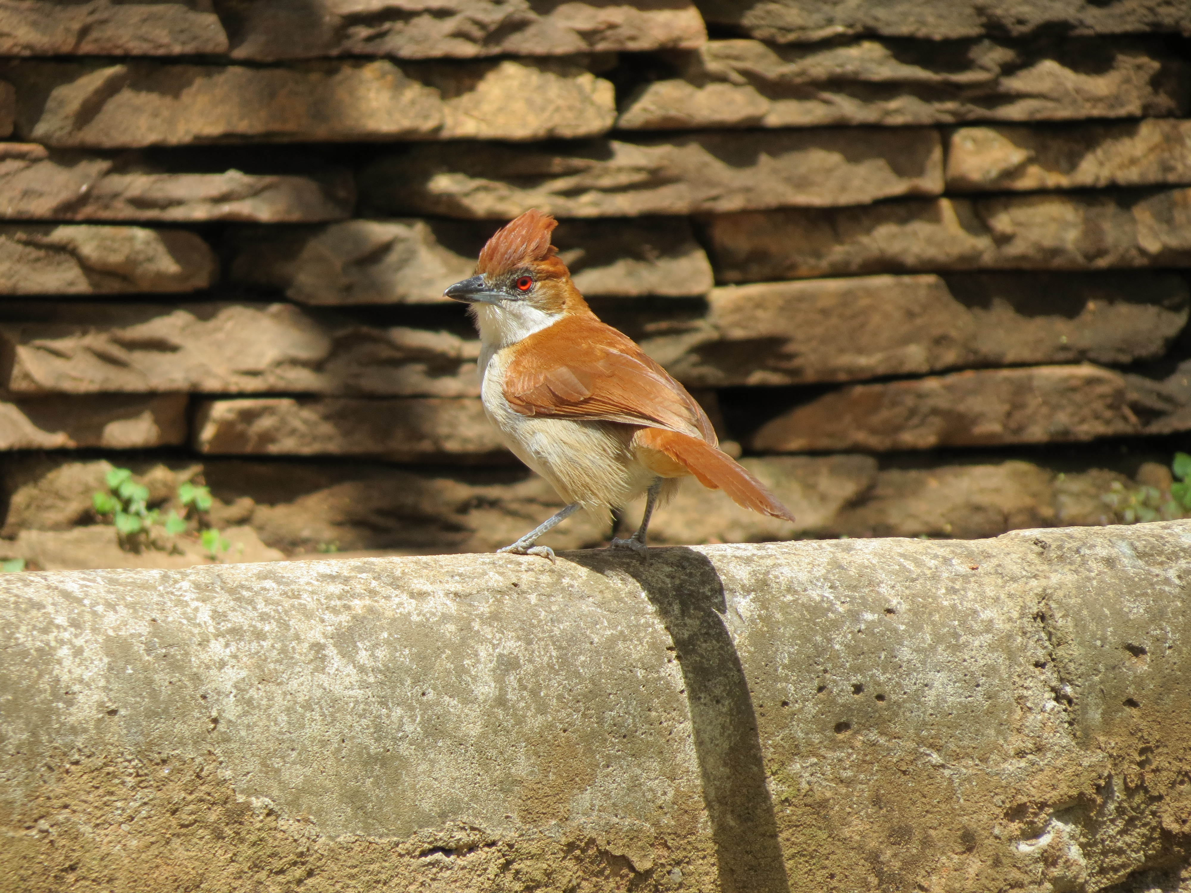 Great Antshrike (Taraba major) in Belo Horizonte Zoo, Brazil. Female.